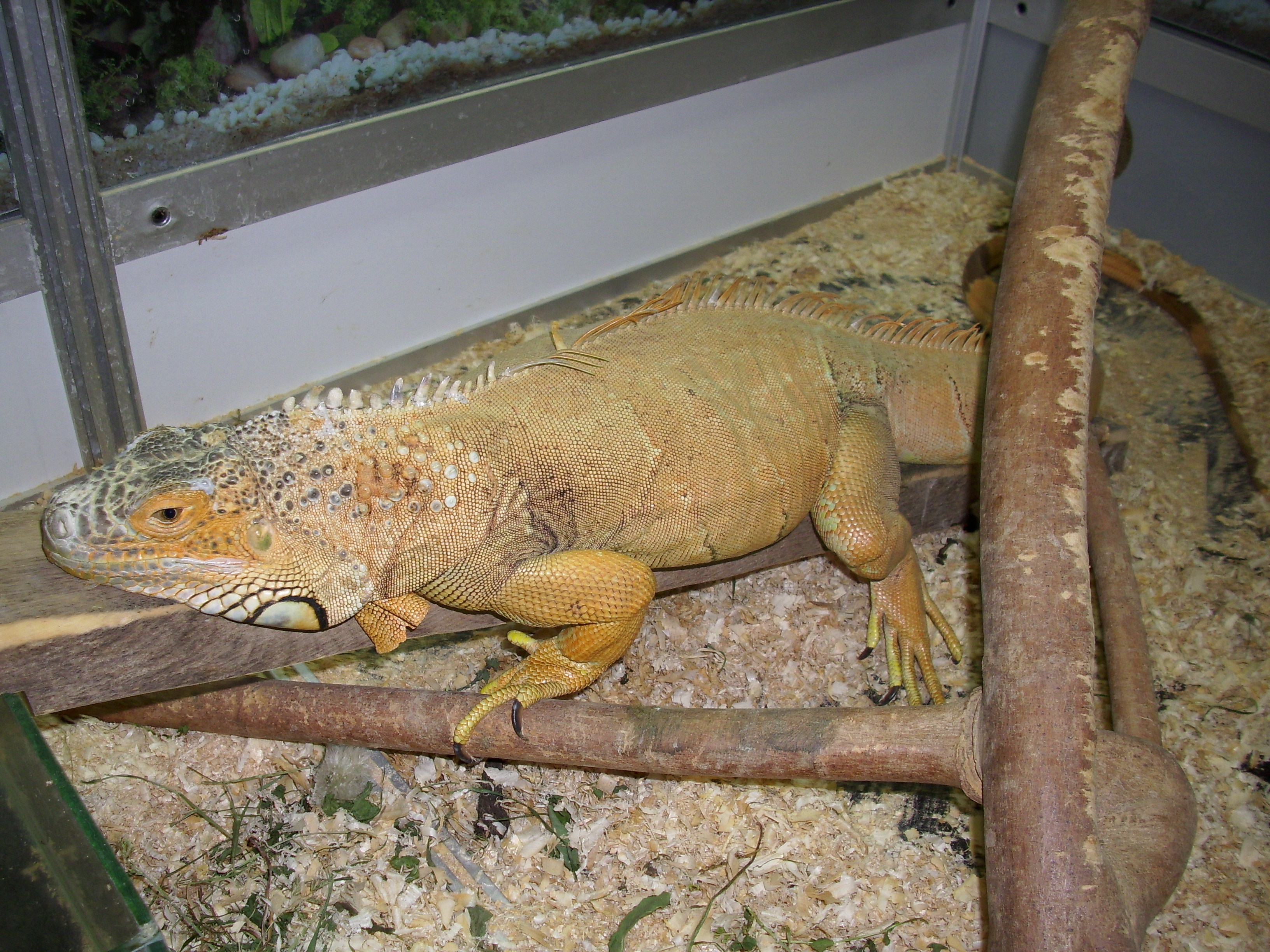 Iguana iguana in the terrarium.